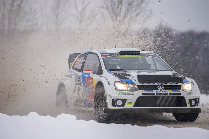 Rally Sweden 2014 Jari-Matti Latvala,Kirkener 2,Miikka Anttila,Mikka Antilla,Motorsport,Rally,Rally Sweden,Rallye,Rallye Schweden,SS5,VW Polo R WRC,Volkswagen Motorsport,Volkswagen Polo R WRC,WP5